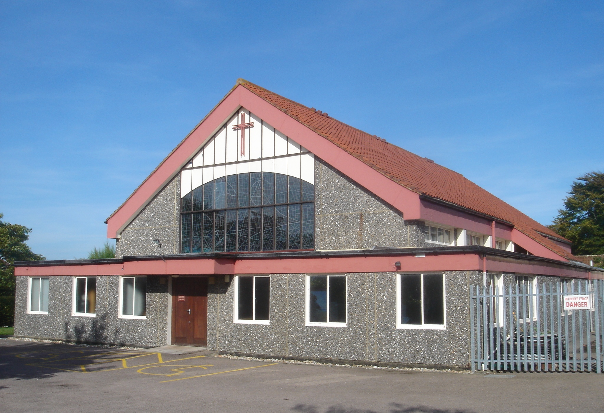 Church of the English Martyrs, Goring Way, Goring-by-Sea, Worthing, West Sussex, England. A Roman Catholic church built in 1970. Famous for its unique hand-painted replica of the Sistine Chapel roof, painted between 1988 and 1994 by an untrained artist.